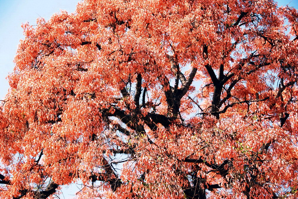 Erythrina dominguezii in bloom: detail. Goya, Corrientes Province, Argentina.